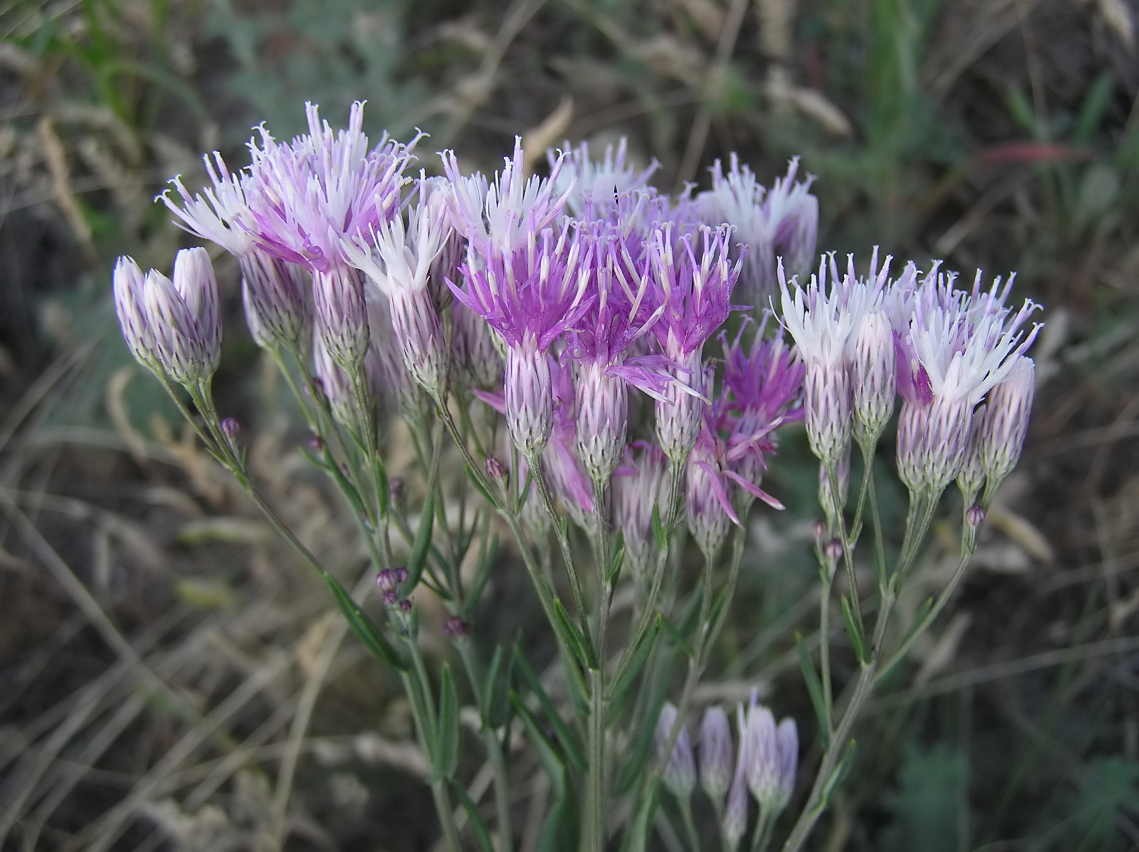 Jurinea multiflora (L.) B. Fedtsch. Habitat: saline steppe. Vicinity of Saratov city, Russia.